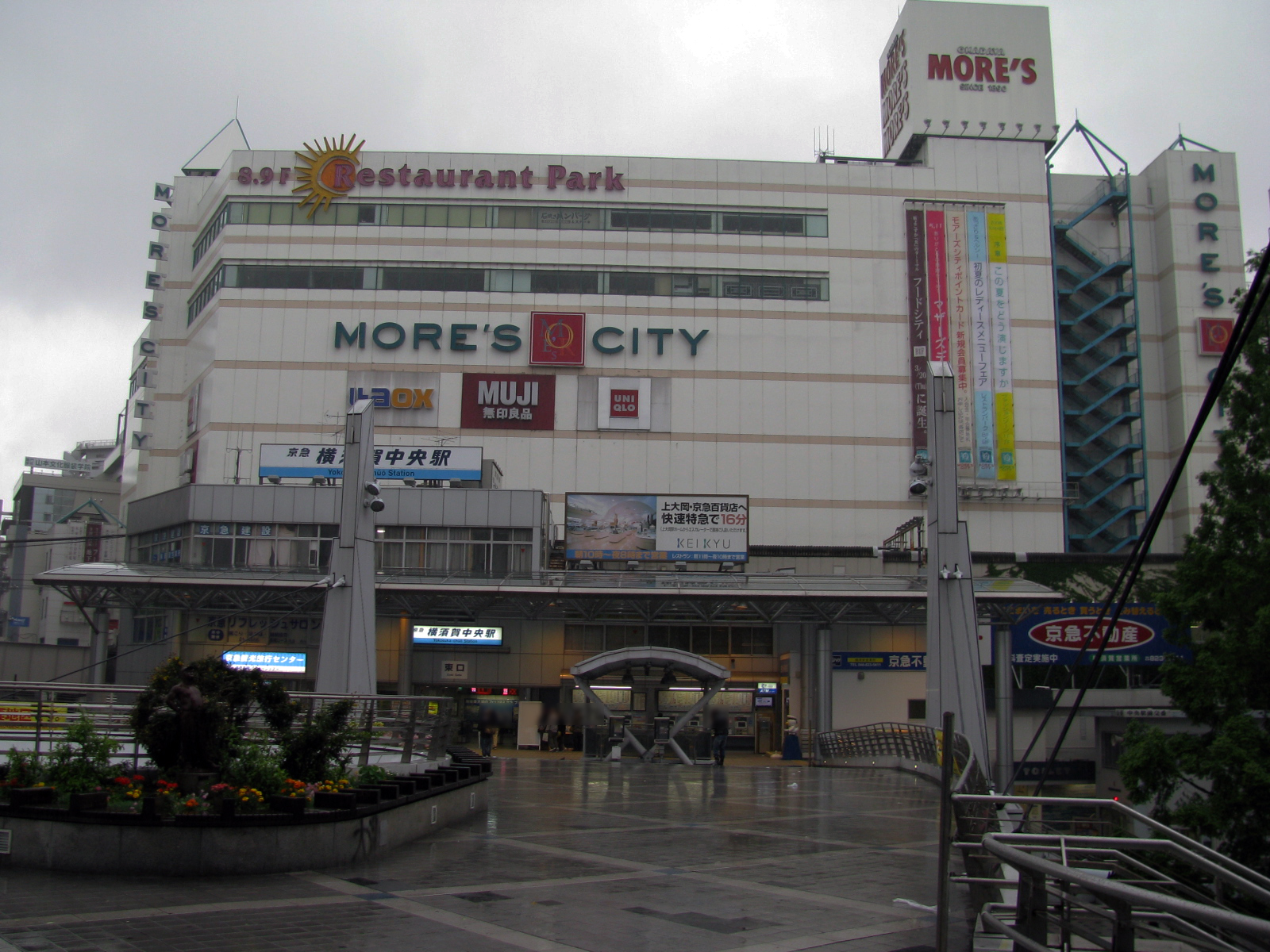 Yokosuka-chūō Station